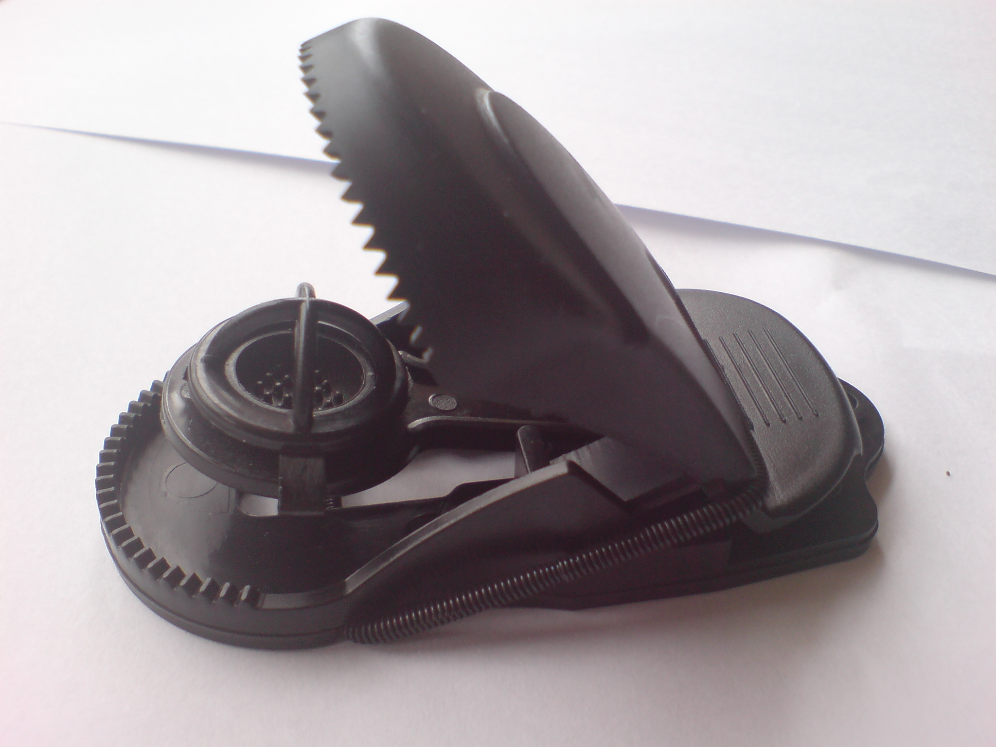 Mouse trap - "Promax" brand